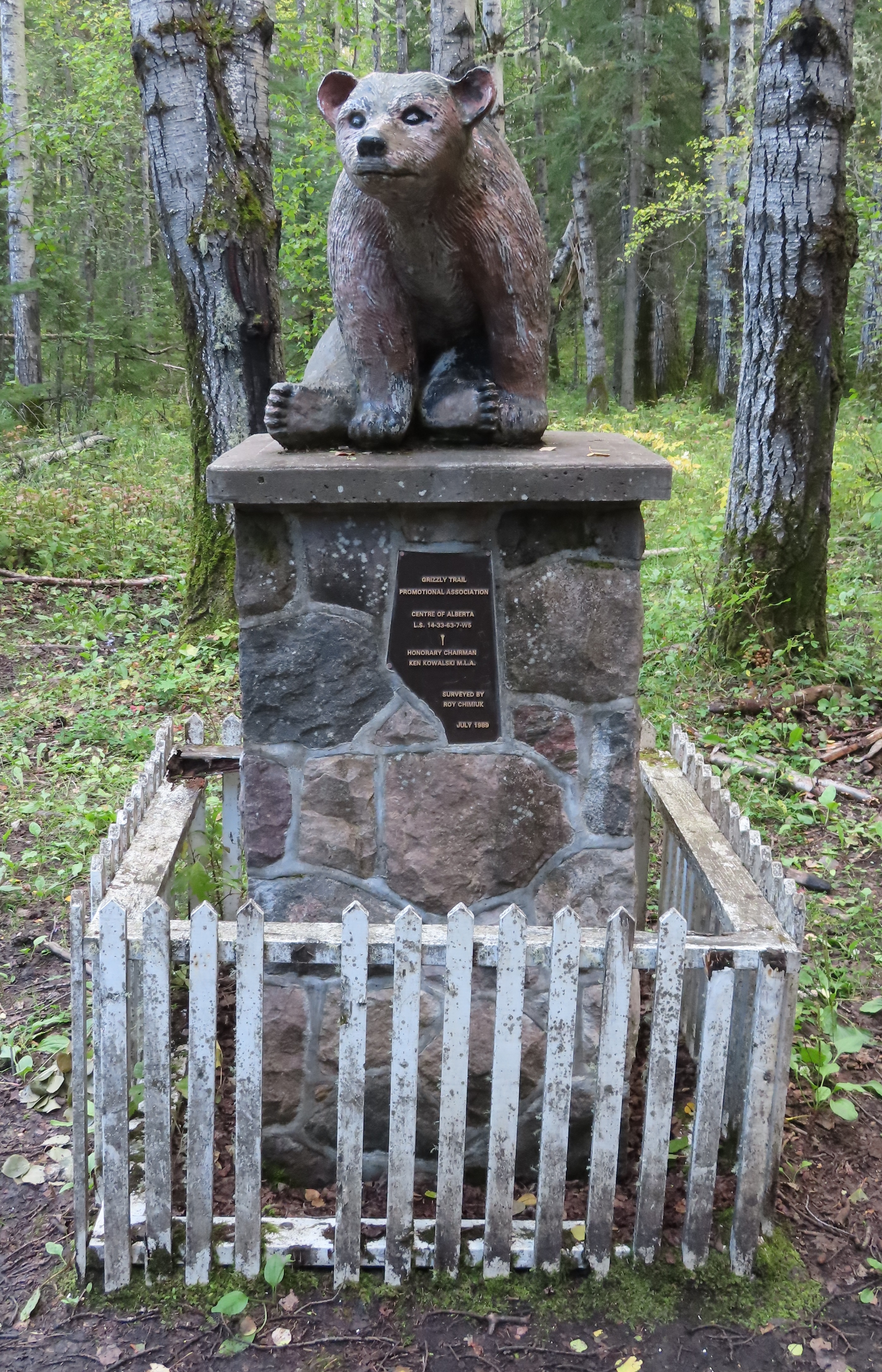 Cairn located at the heart of the Centre of Alberta Natural Area, Alberta, Canada.